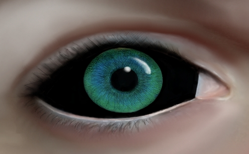 Scleral tattooing